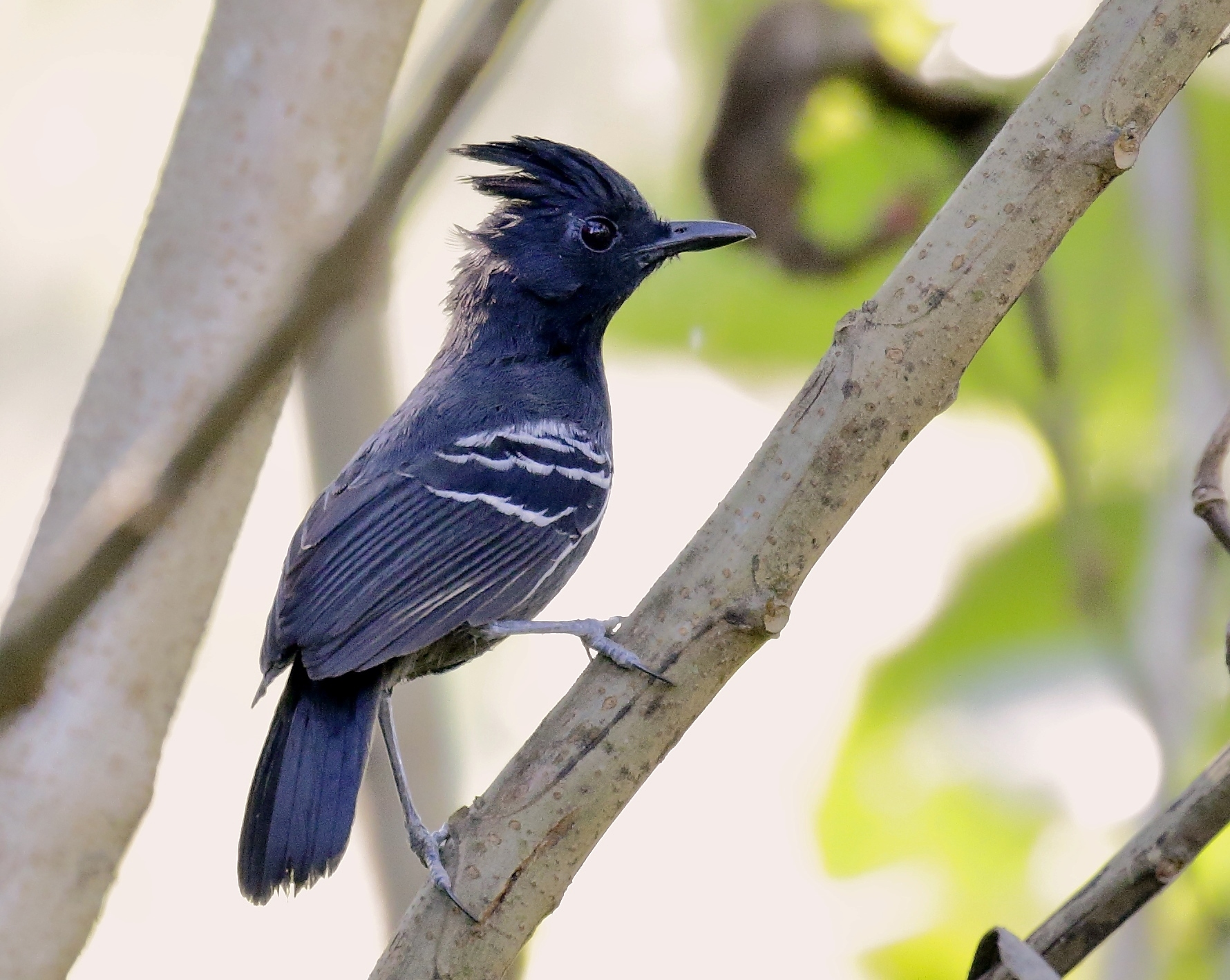 White-lined antbird (male) at Rio Branco - Acre - Brazil